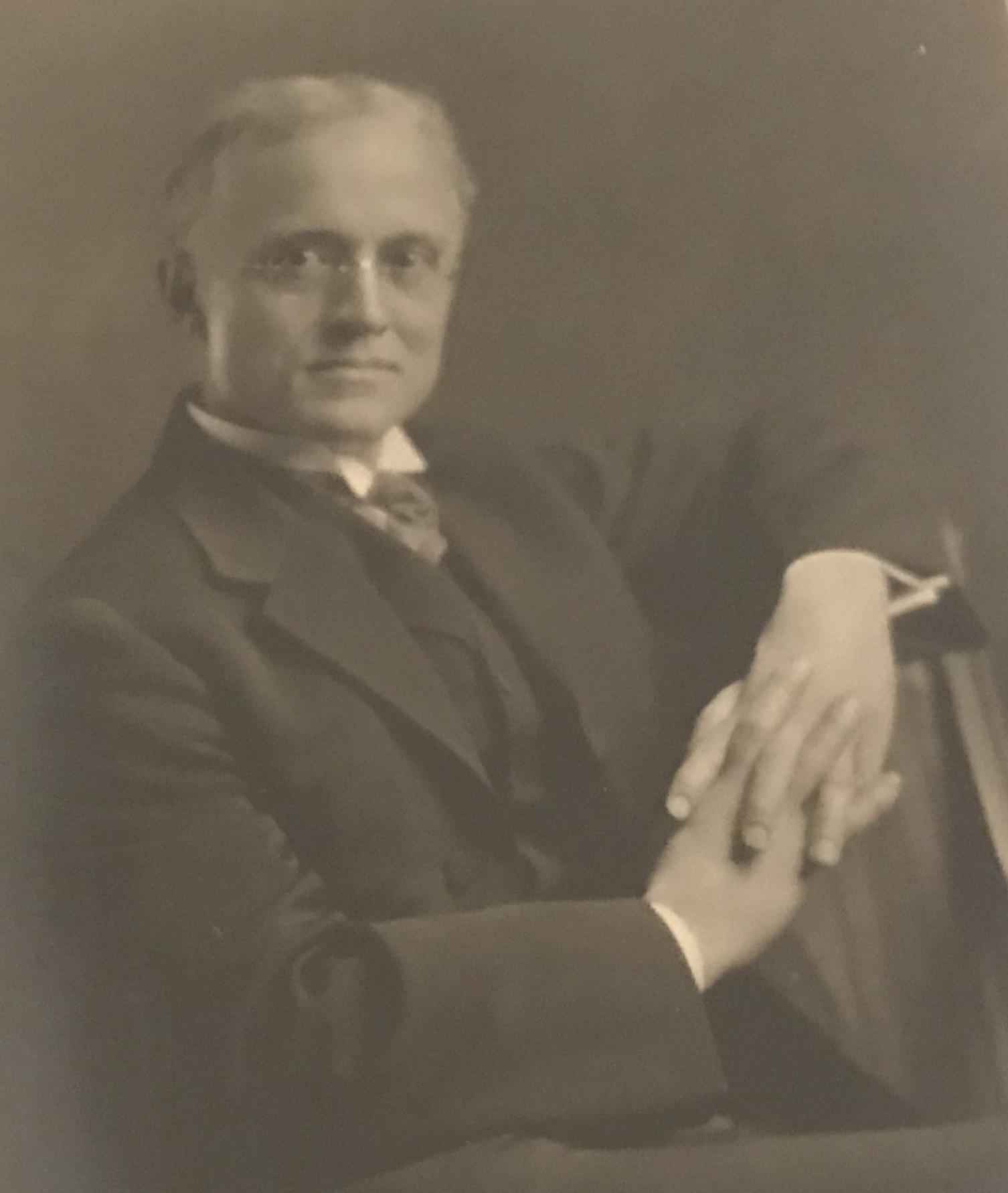 Dr. Isaac Joslin Cox was head of the history department at Northwestern University